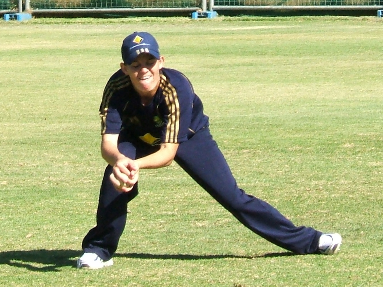 Named person engaging in named action at Adelaide Oval nets/training ground